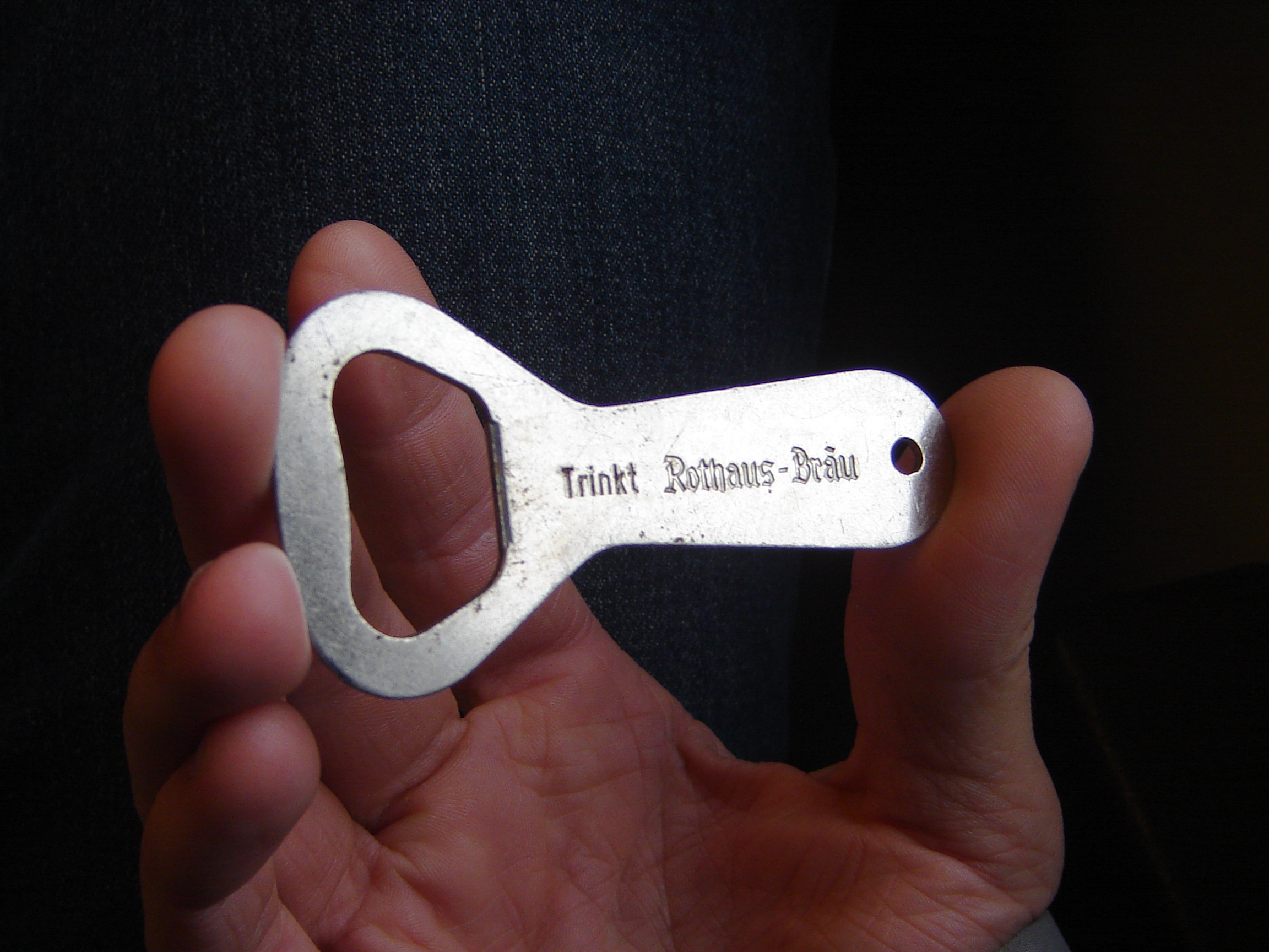 Bottle opener with a slogan by the German „Rothaus“ brewery. Source: own photograph